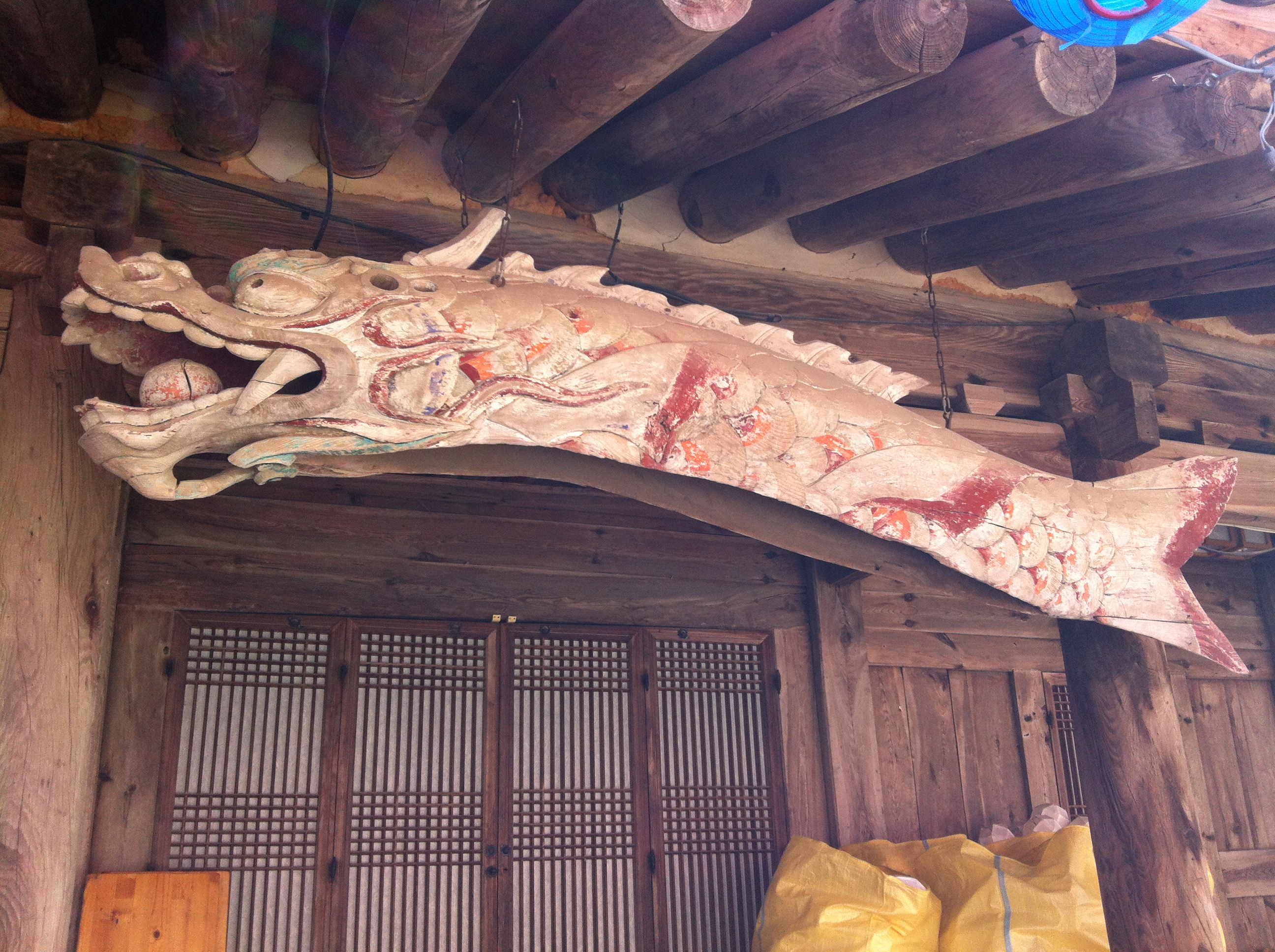 Mok-eo(목어, 木魚, Wooden fish) is a traditional musical instrument of Korean Buddhism to use in temples.